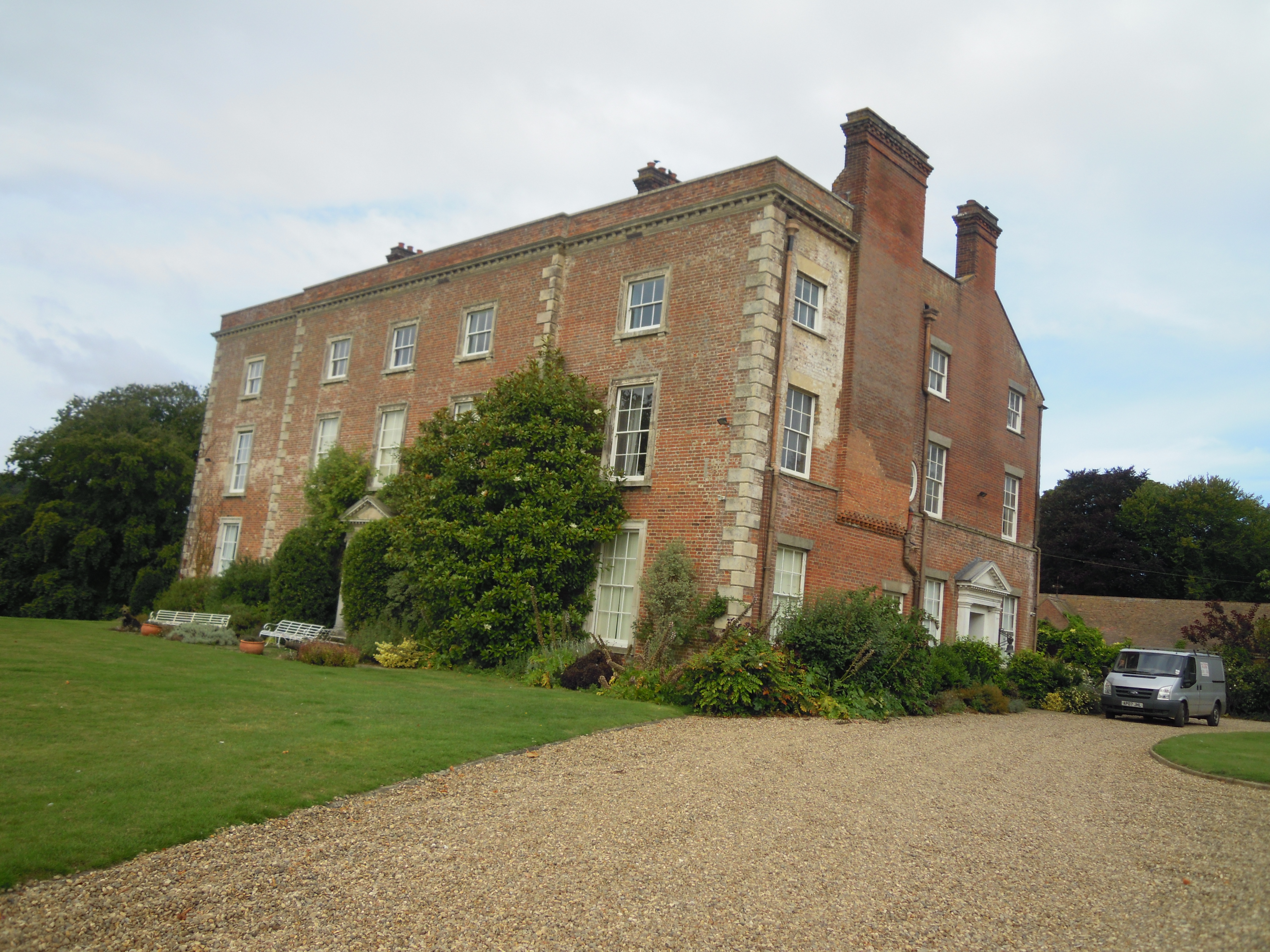 The south facing façade of Bayfield Hall, Wiveton, Norfolk, United Kingdom.